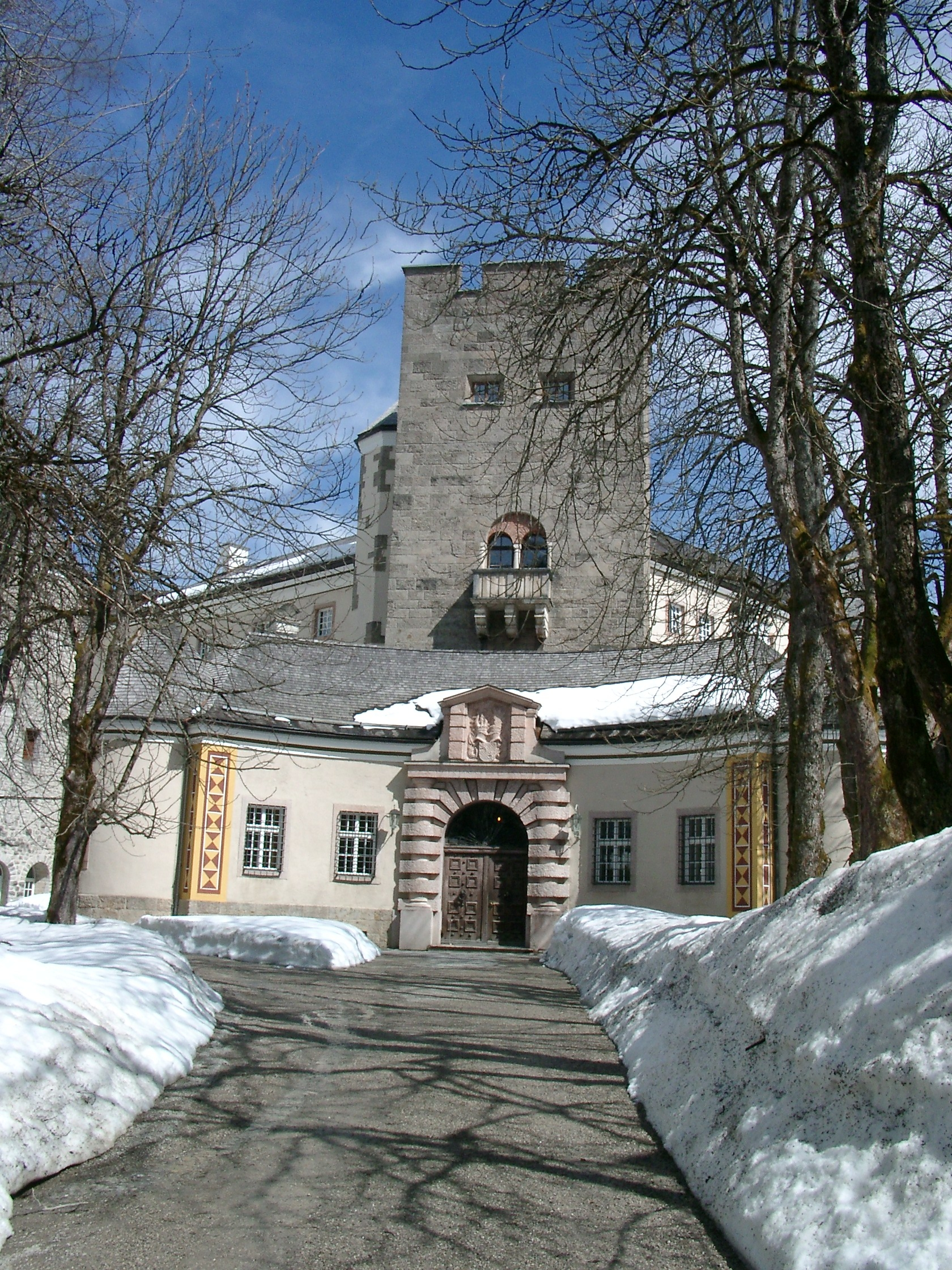 Picture of Schloss Ringberg taken from the gate at the south looking north to the main antrance of the building.